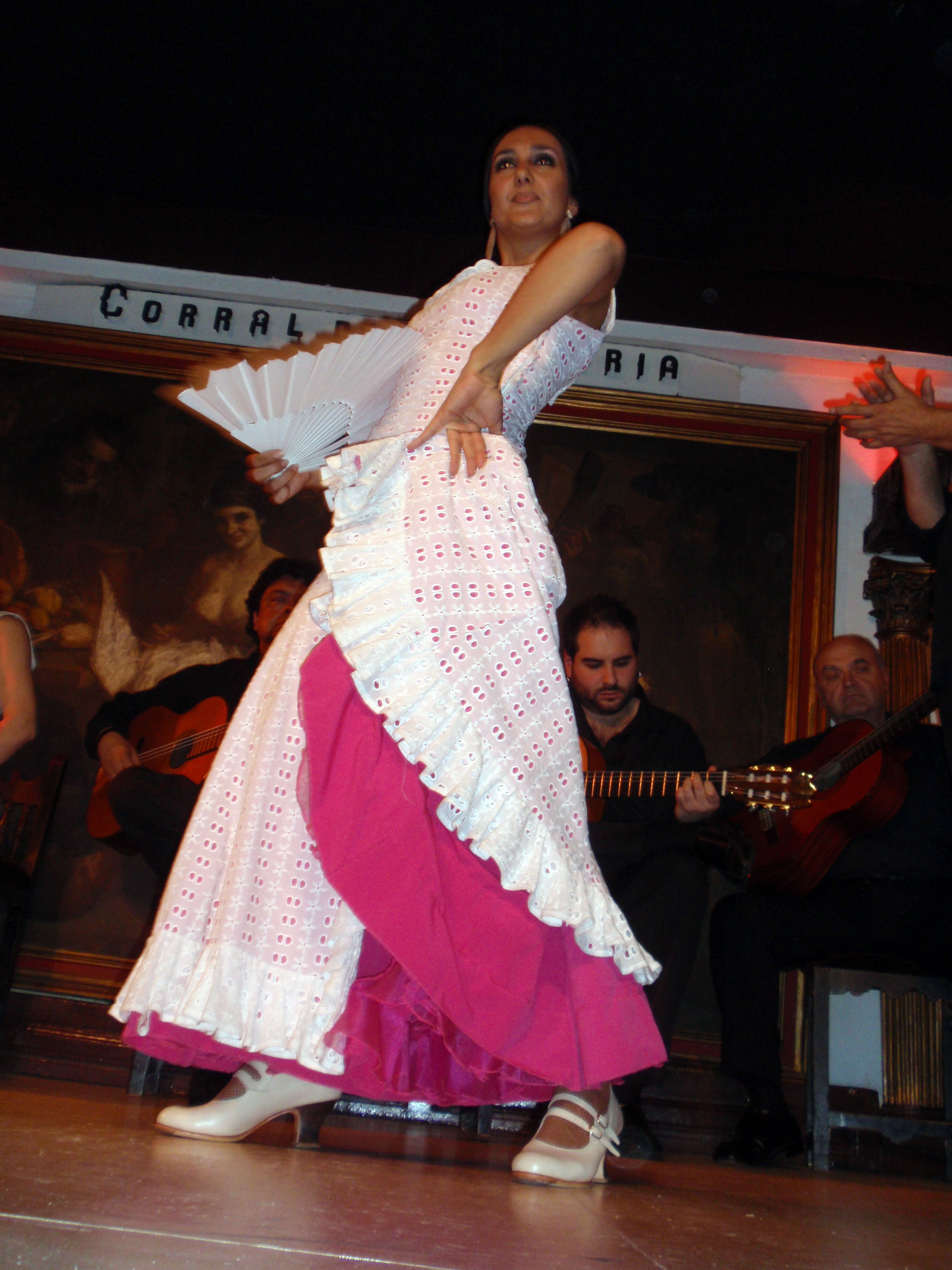 Corral de la Morería, Madrid. Position in flamenco dancing.